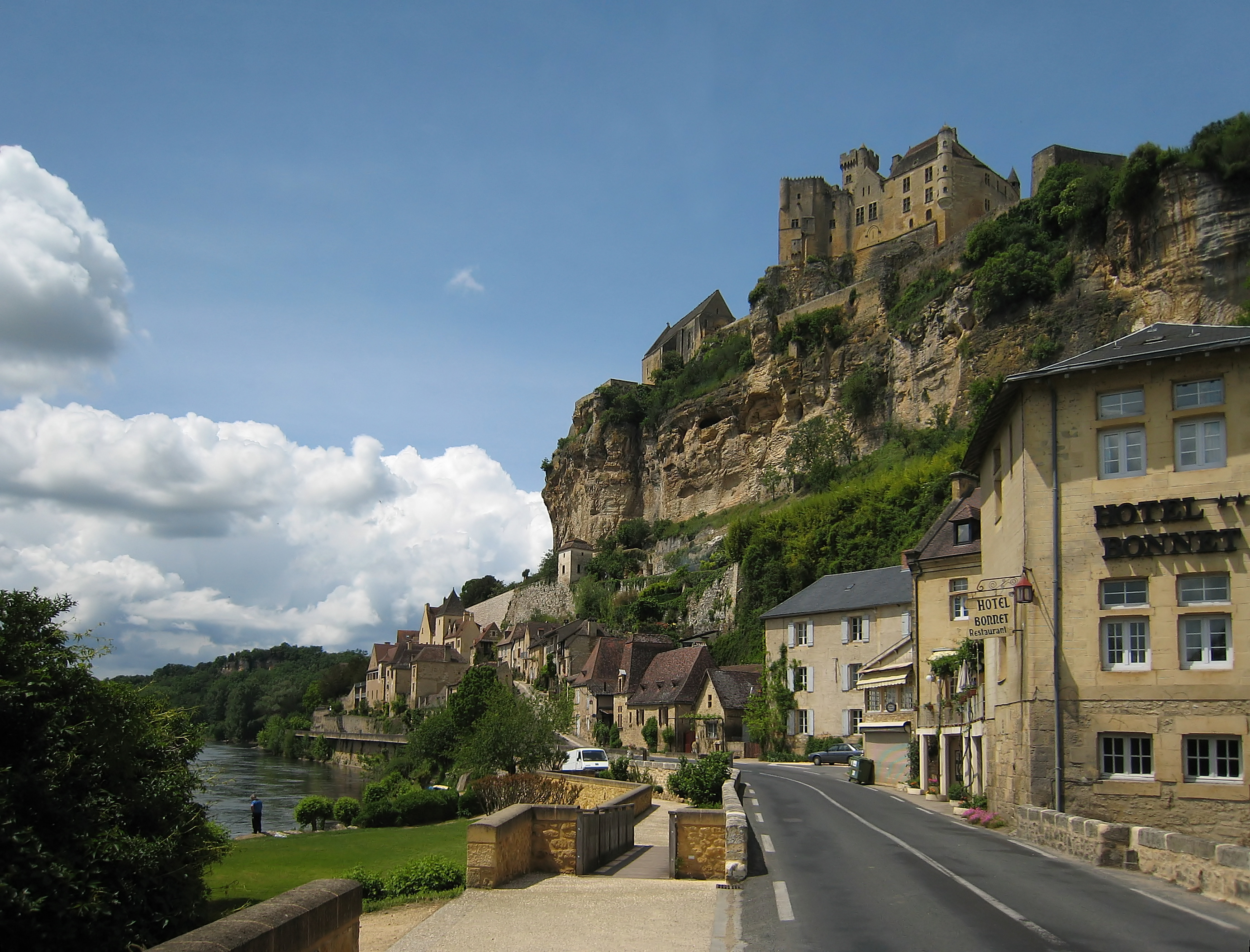 Village of Beynac-et-Cazenac, situated at the river Dordogne in the Département Dordogne/France